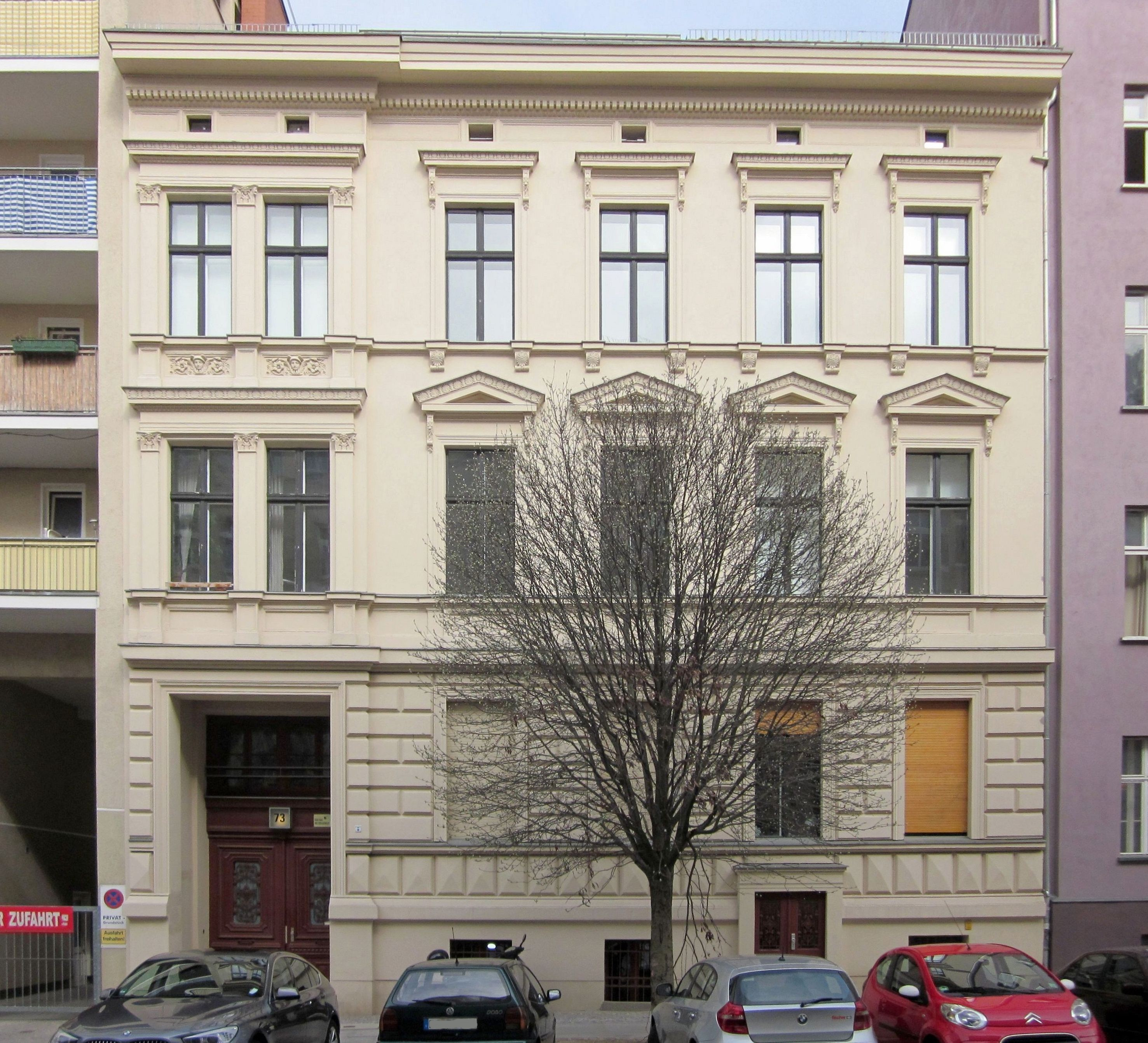 Residential building Rheinsberger Straße No. 73 in Berlin-Mitte. The house was built in 1871. It has been designated as a historic landmark.